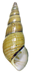 Apertural view of a shell of Brotia citrina.